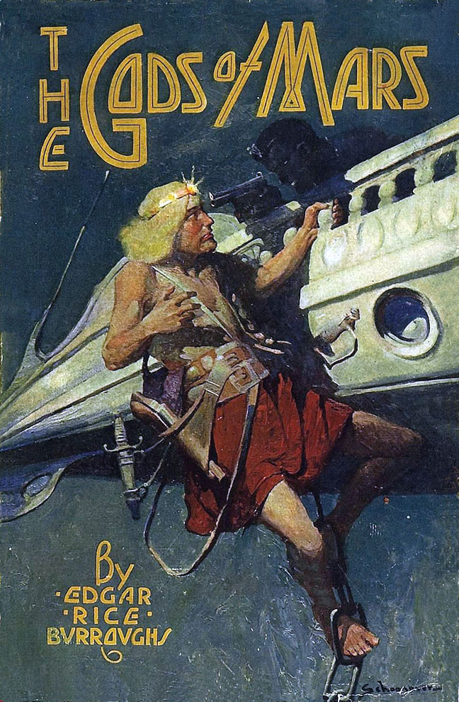 Cover art by Frank E. Schoonover from The Gods of Mars by Edgar Rice Burroughs, McClurg, 1918.